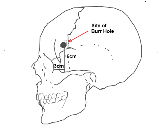 This is a diagram, drawn by the author, of the skull and site of borehole for the standard pre-frontal lobotomy/leucotomy operation as developed by Freeman and Watts. This diagram has been derived from a variety of Journal articles detailing the technique of the standard operation.